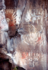 Indian Painted Rocks, Photographer: Robert Niles, self